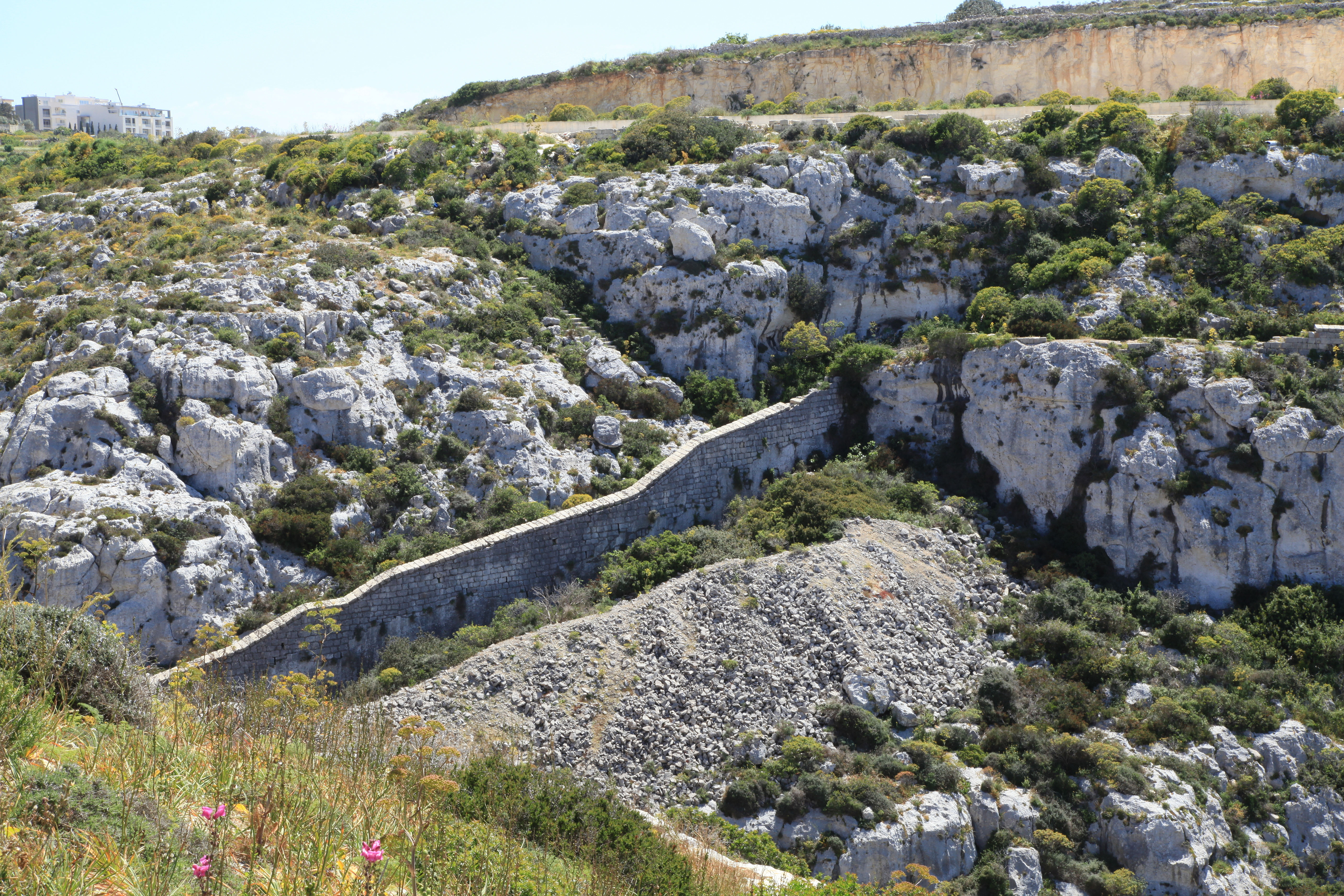 View from Triq Għaxqet l-Għajn in Għargħur to the Victoria Lines crossing the boundry between Għargħur (front) and Naxxar (rear), Malta